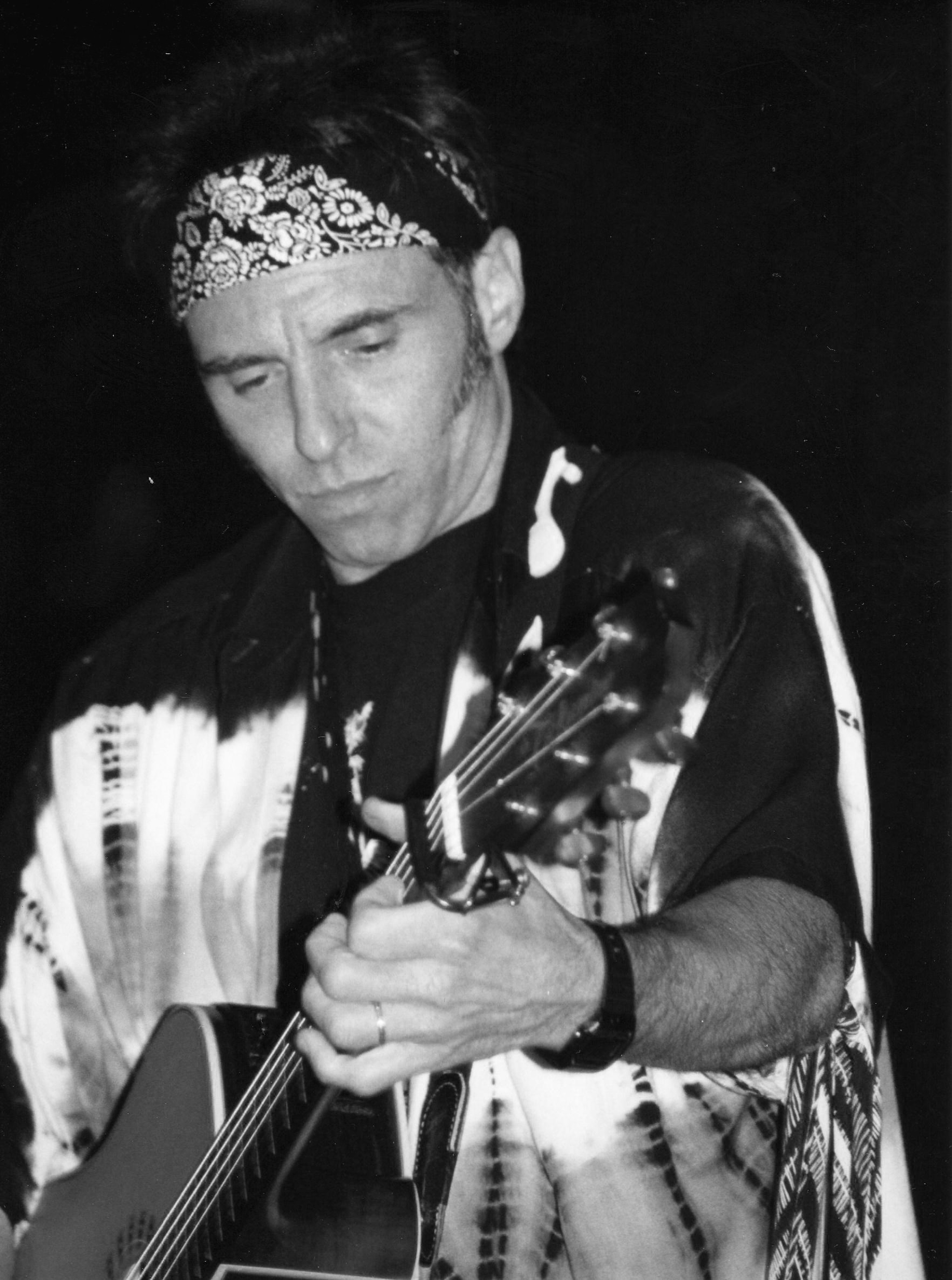 Photo of Nils Lofgren at Ronnie Scotts, 1997